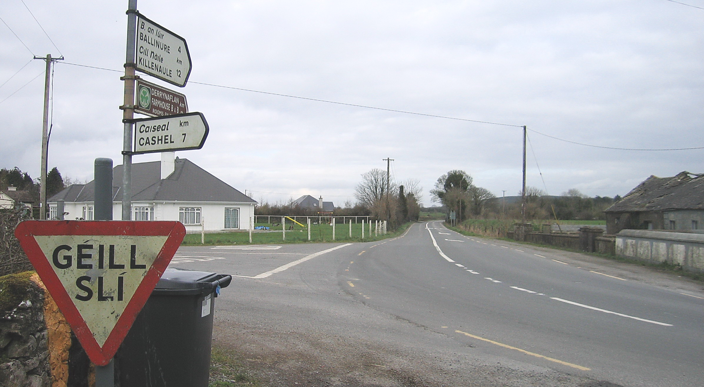 North of Dualla, County Tipperary. The R691 ahead, the YIELD sign in Irish, once common in South Tipperary.(Sarah777 15:24, 18 March 2007 (UTC))